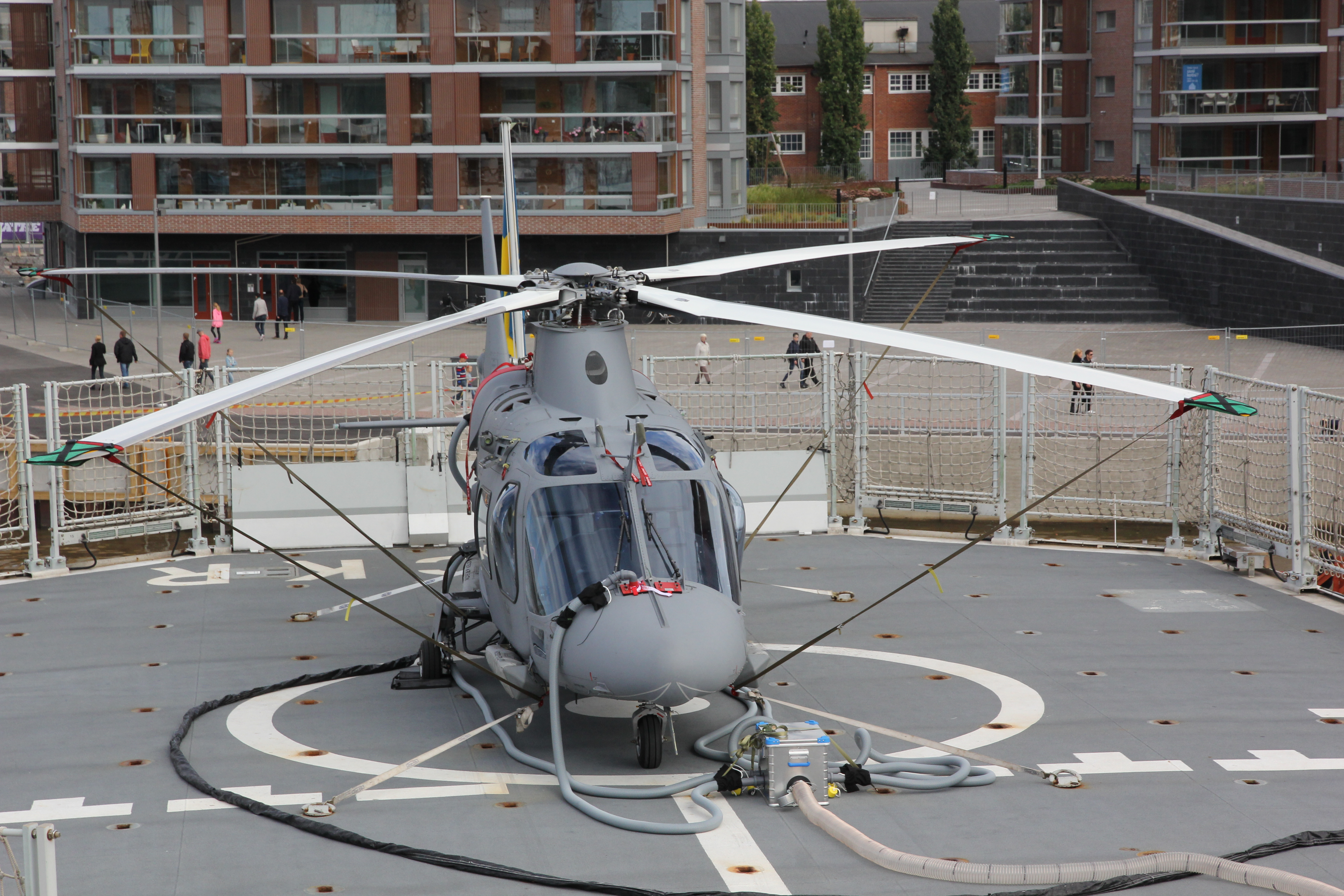 AgustaWestland AW109LUH on the helipad of Swedish patrol vessel Carlskrona (P04) photographed during the Northern Coasts 2014 exercise public pre sail event in Aura river in Turku.